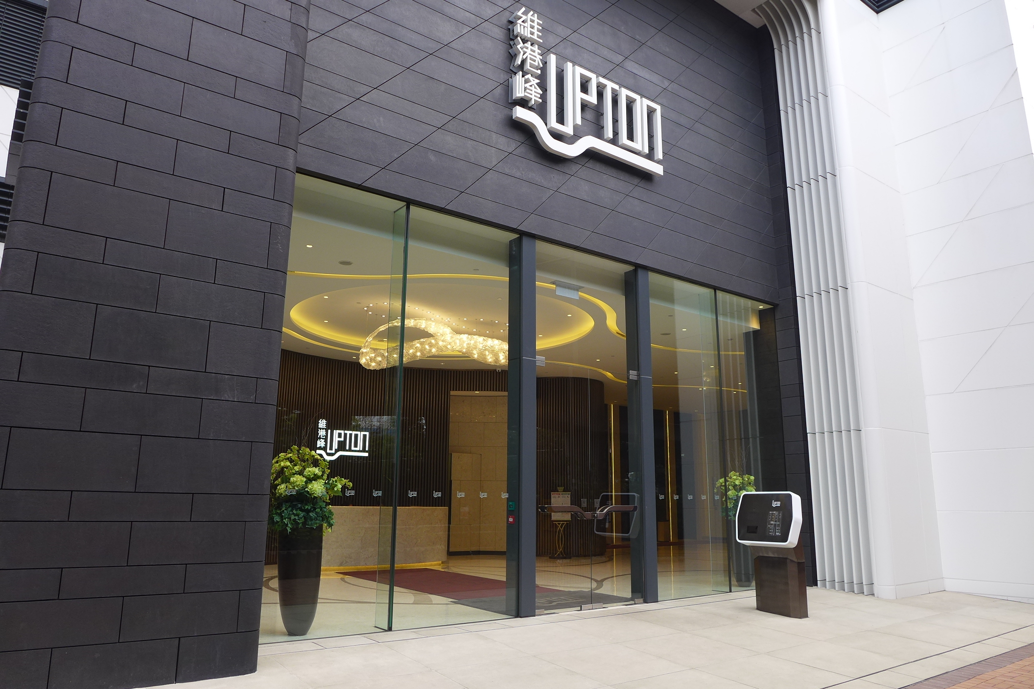 Upton Entrance Lobby